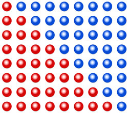 Computation of a triangular number (the grec way)